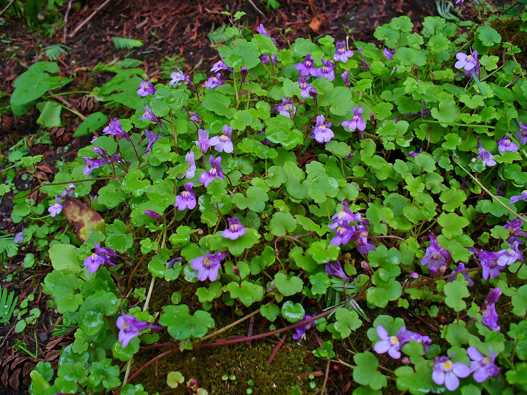 Cymbalaria muralis, Plantaginaceae, Ivy-leaved Toadflax, Kenilworth Ivy, habitus; Botanical Garden KIT, Karlsruhe, Germany.